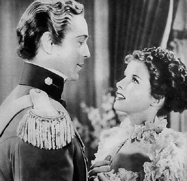 Franchot Tone e Katharine Hepburn in "Quality Street"